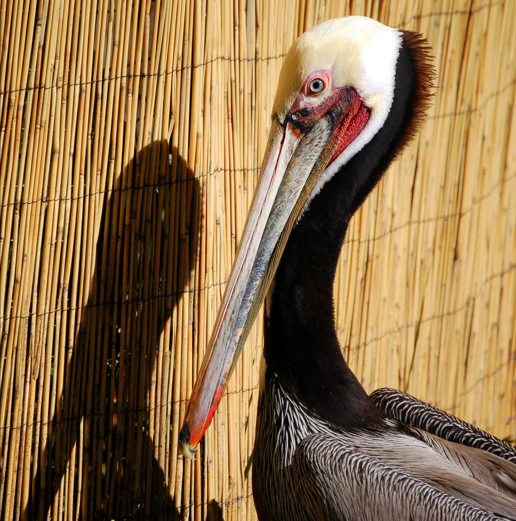 Brown Pelican (Pelecanus occidentalis) at Philadelphia Zoo. Photograph shows upper body, head, and neck. Subspecies Pelecanus occidentalis californicus.